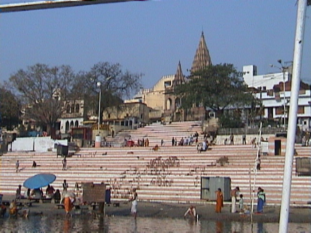 Hindu culture, have attributed supreme importance to the preservation of tradition Classical civilizations, and especially the Indian one, have attributed supreme importance to the preservation of tradition. Its central idea was that social institutions, scientific knowledge and technological applications need to use "heritage" as a "resource". Using contemporary language, we would say that ancient Indians considered, as social resources, both economic assets (like natural resources and their exploitation structure) and factors promoting social integration (like institutions for preserving knowledge and maintaining civil order). Ethics considered that what had been inherited should not be consumed, but should be handed over, possibly enriched, to successive generations. This was a moral imperative for all, except in the final life stage of sannyasa